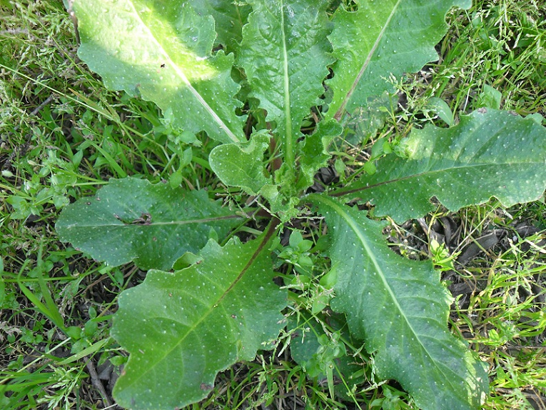 Picris echioides in Salento ITALY